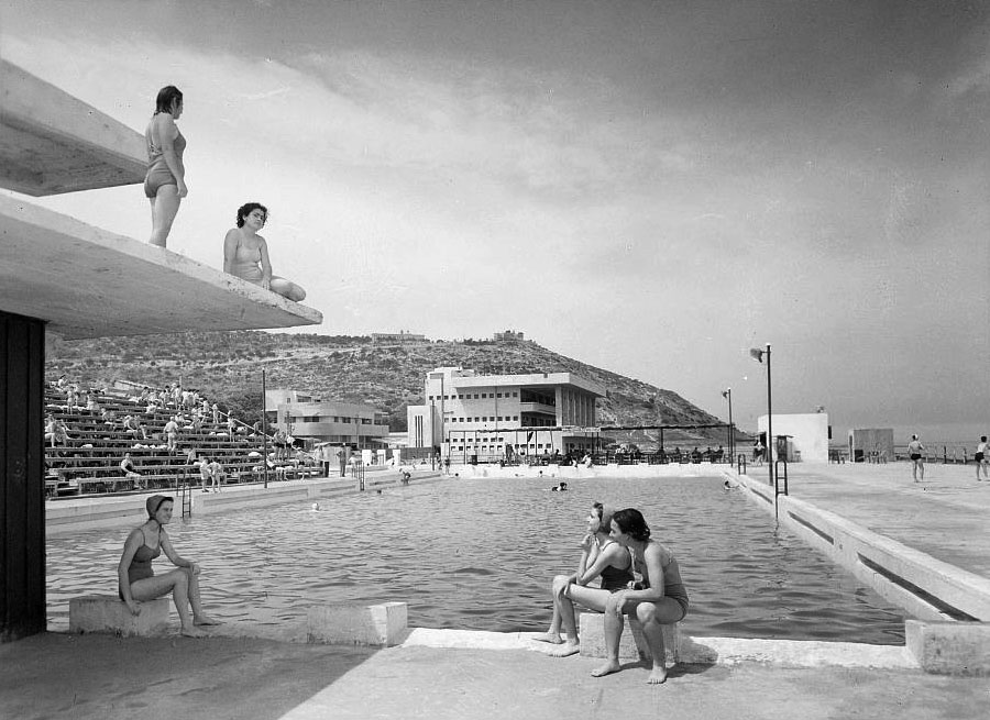 "The Casino" and pool — on the shore in the Bat Galim neighborhood of Haifa. Title and date from: photographer's logbook: Matson Registers, v. 2, [1940-1946]. הבריכה ליד הקזינו של בת גלים בחיפה. תוארך על ידי הצל בין השנים 1940-1946